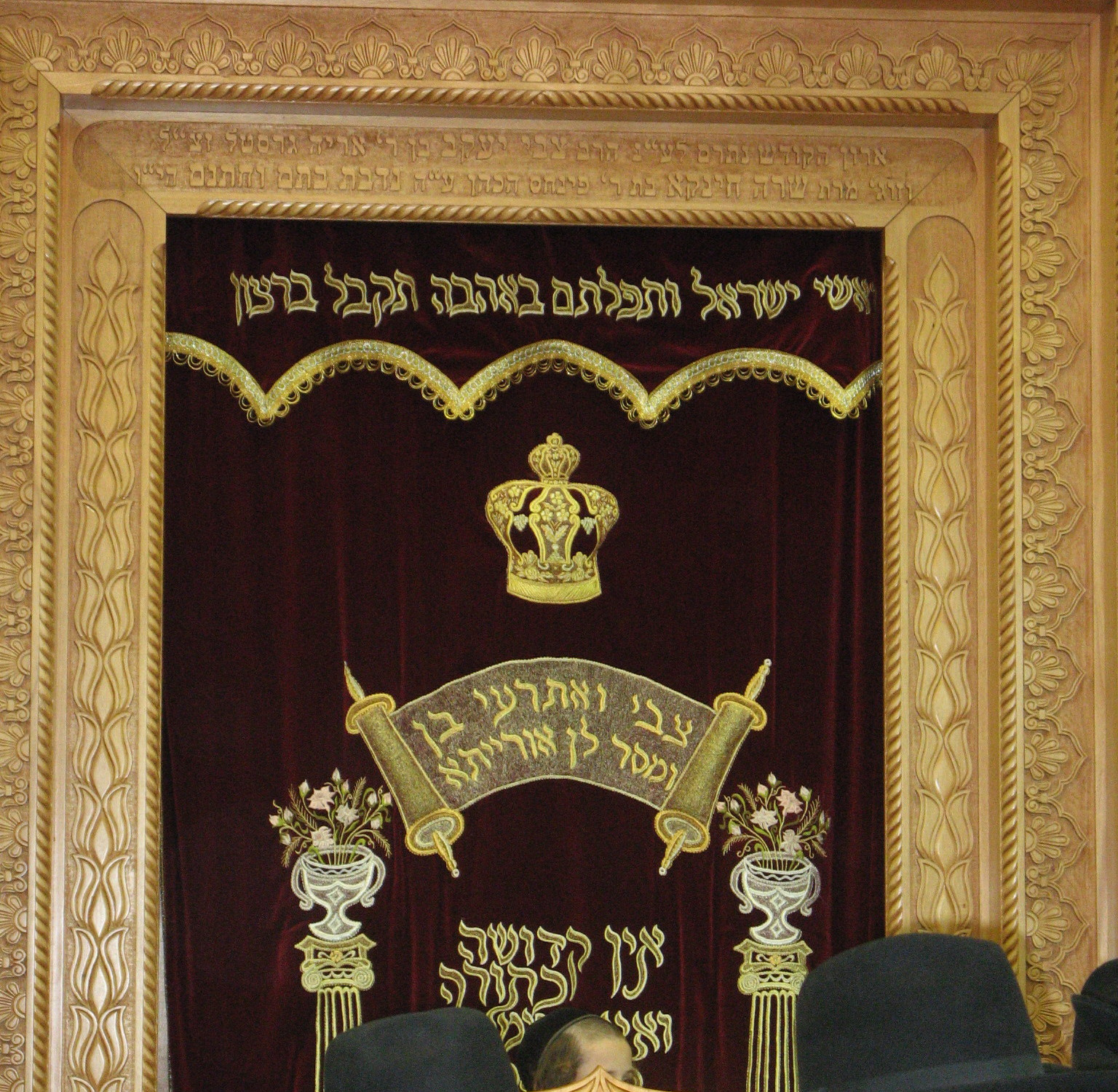 Cover of Torah ark with a verse from Akdamot